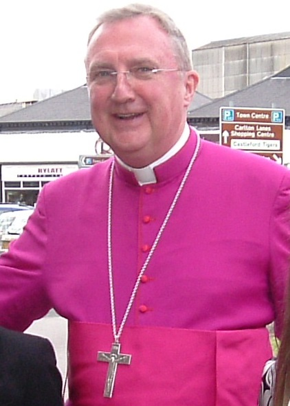 The then Bishop Arthur Roche taken in 2008